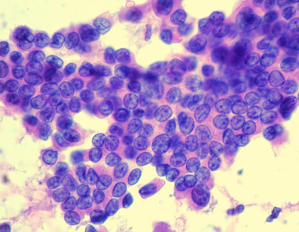 Papillary Carcinoma of the Thyroid This illustrative cell group shows cardinal features of papillary carcinoma: nuclear grooves and pseudoinclusion. Scrape cytology from cut surface of tumor in thyroidectomy specimen, rapid H&E, 1000X.